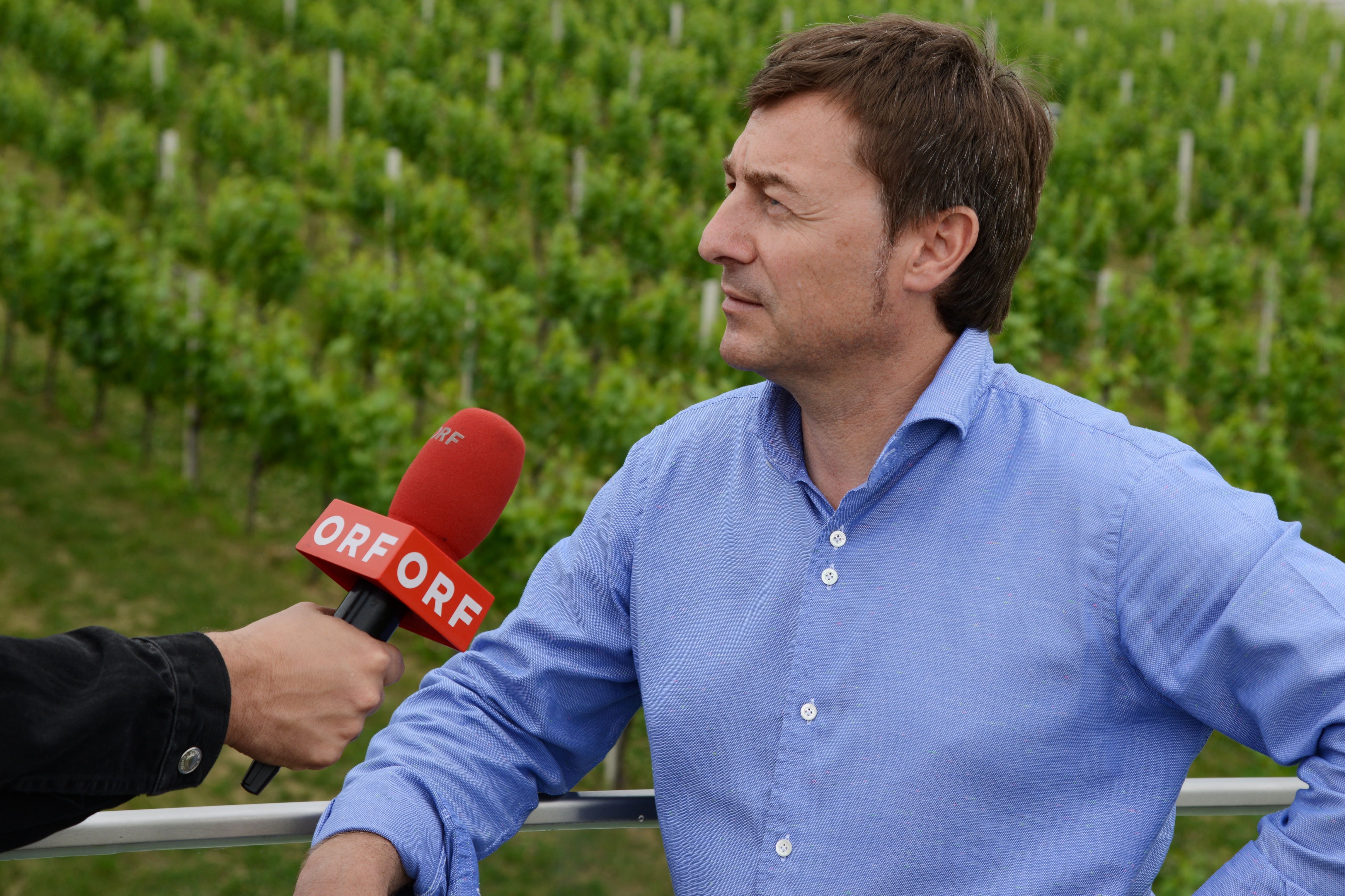 Uwe Schiefer, 20 June 2014